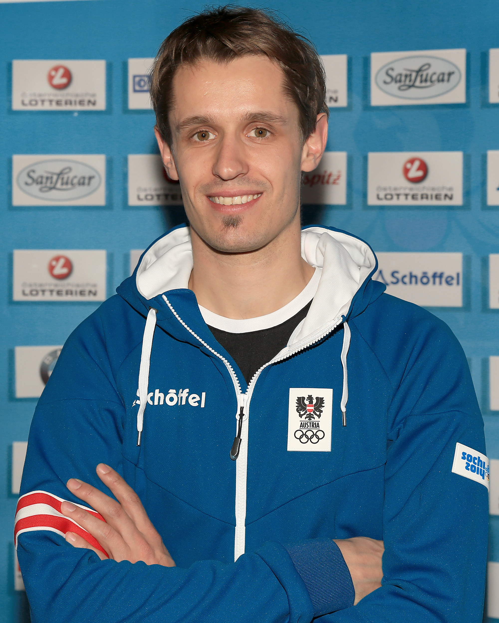 Lukas Klapfer at the outfitting of the Austrian team for the 2014 Winter Olympics (Hotel Marriott in Vienna, Austria.